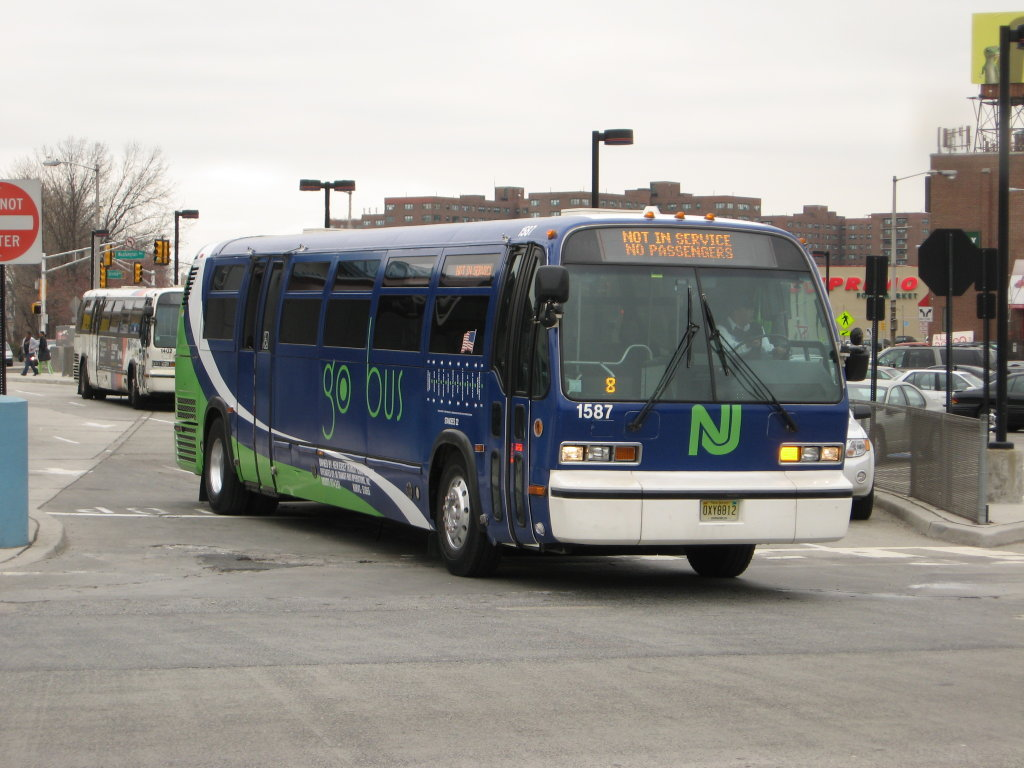 New Jersey Transit Nova Bus RTS #1587 wears a gobus branding for the go25 limited stop line.